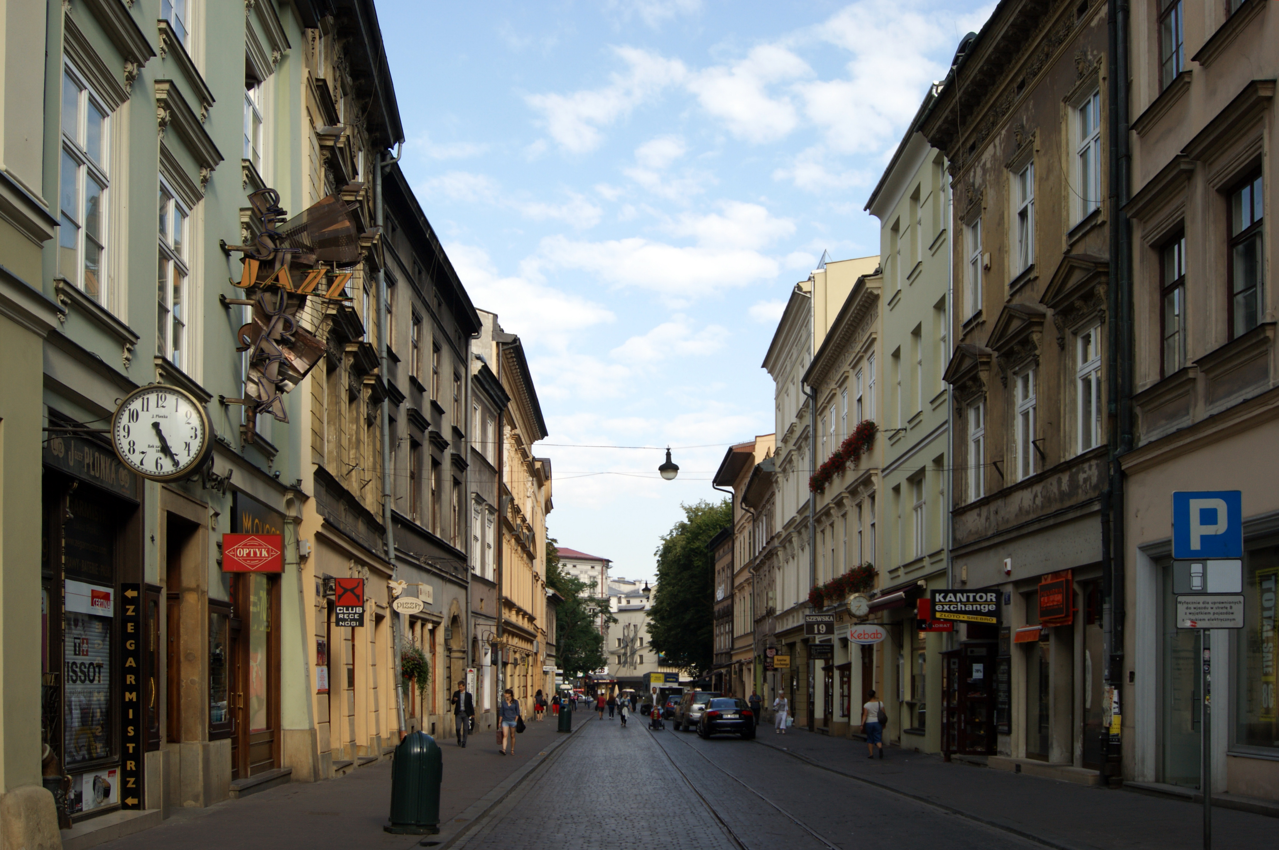 Szewska street, view to NW, Old Town, Krakow, Poland